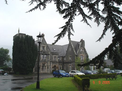 Maenan Abbey. Maenan Abbey, now a hotel, on the A470 in the Conwy Valley